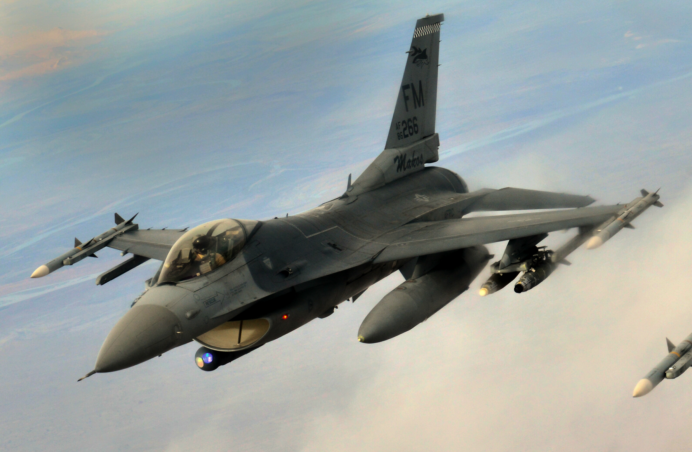 F-16C Block 30 A pair of F-16 Fighting Falcons from Homestead Air Reserve Base, Fla., break off after receiving fuel from a KC-135 Stratotanker from the Transit Center at Manas, Kyrgyzstan, over the skies of Afghanistan Dec. 14, 2013. F-16s with two external fuel tanks can carry approximately 1,800 gallons of fuel and the KC-135 is capable of delivering about 1,000 gallons of fuel per minute. (U.S. Air Force photo/Staff Sgt. Travis Edwards